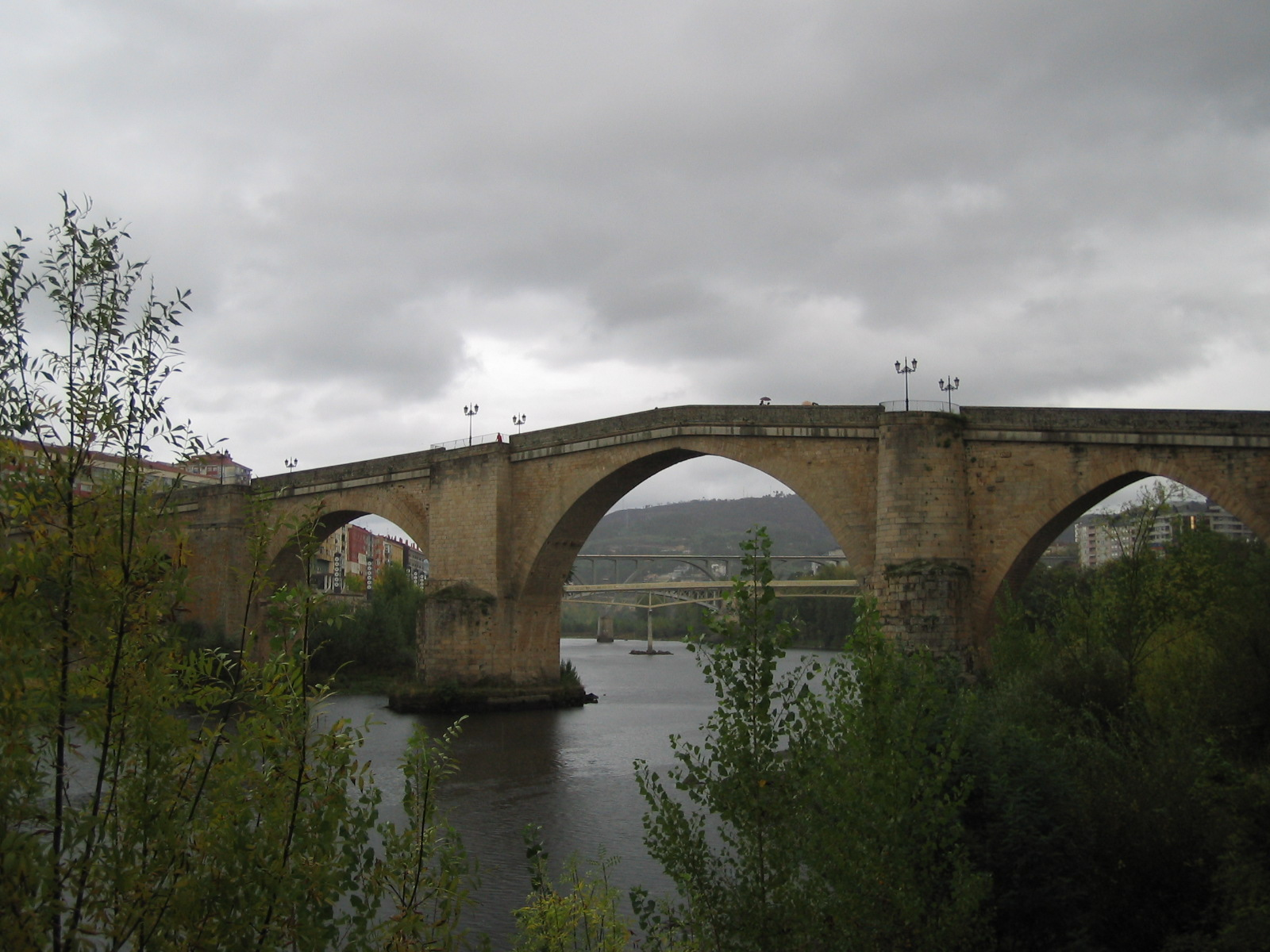 The ancient Roman 'Puente Romano de Ourense,' Minho River, Spain